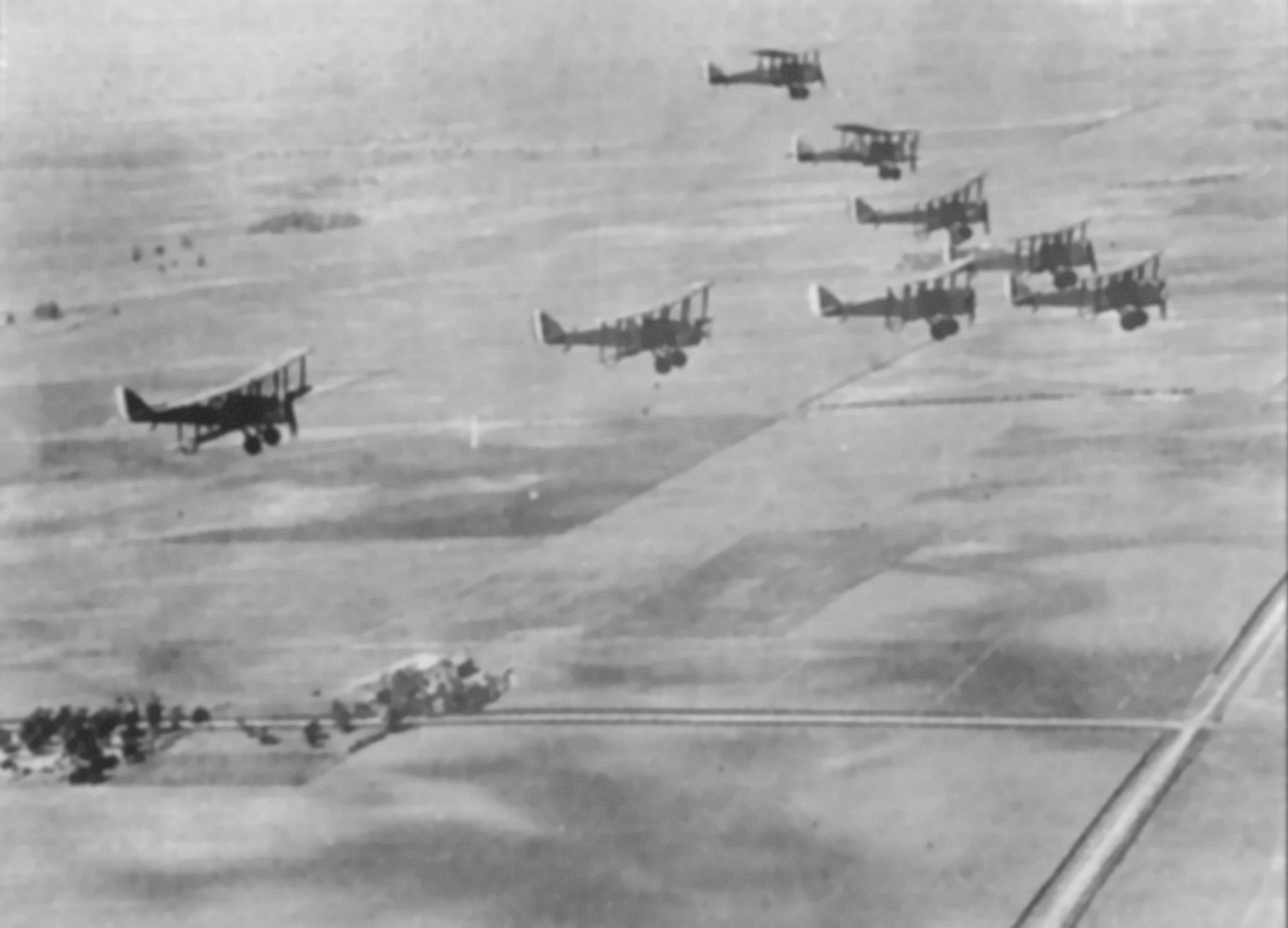 Image from the public domain book A Concise History of the U.S. Air Force by Stephen L. McFarland. Caption reads "A formation of De Havilland DH-4s, British-designed, American-built bombers of World War I."